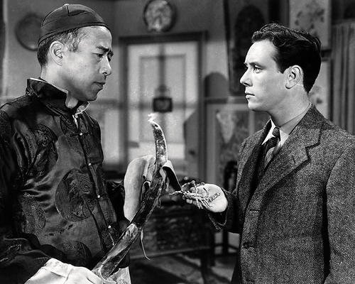 Tetsu Komai (left) & Frank Coghlan Jr. in Adventures of Captain Marvel - publicity still